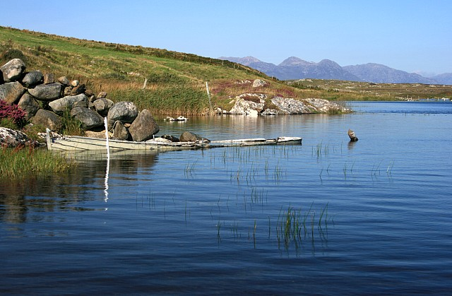 Maumeen Lough and the Twelve Bens This boat has not been used for several years.